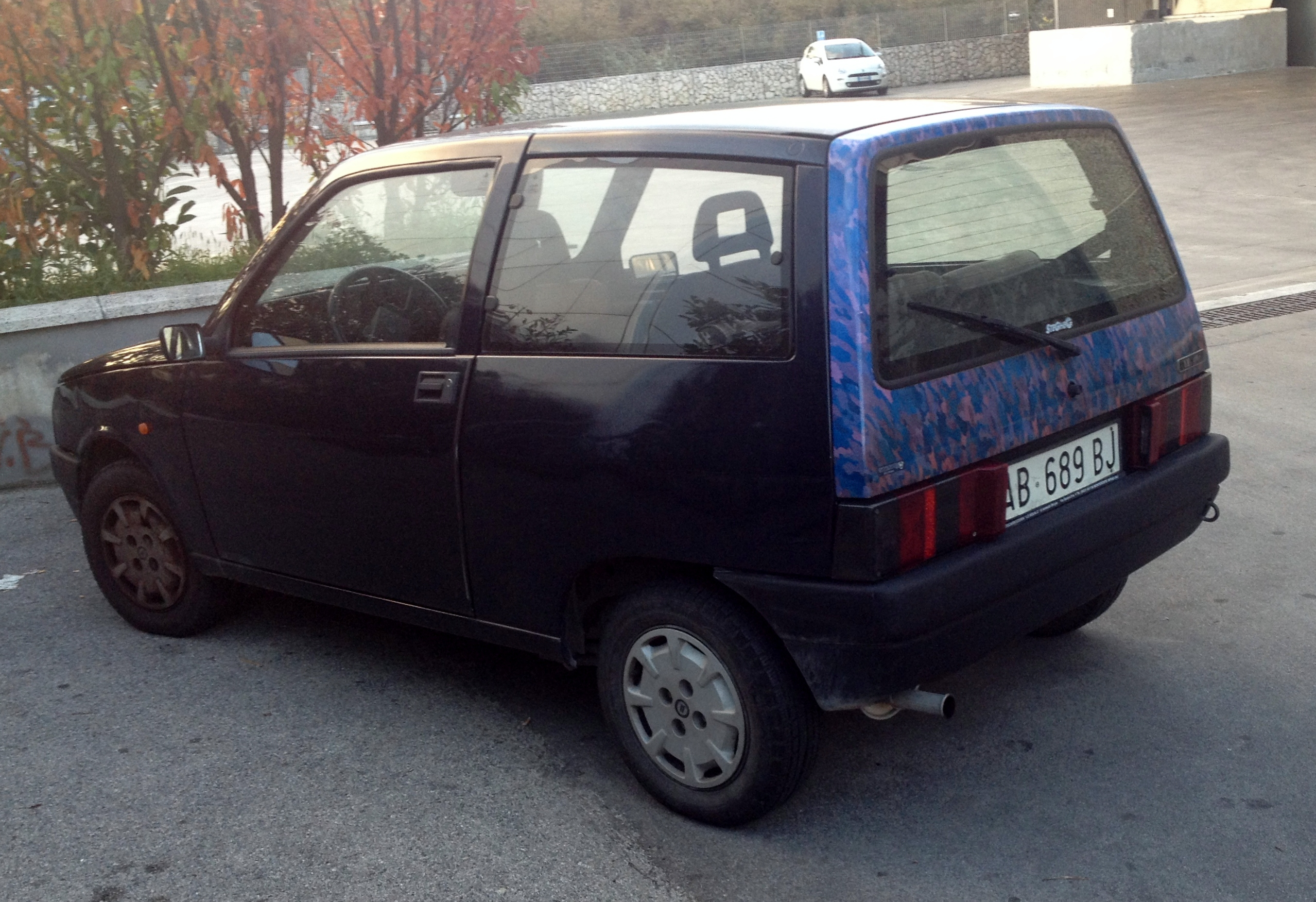 Autobianchi Y10 Mia rear